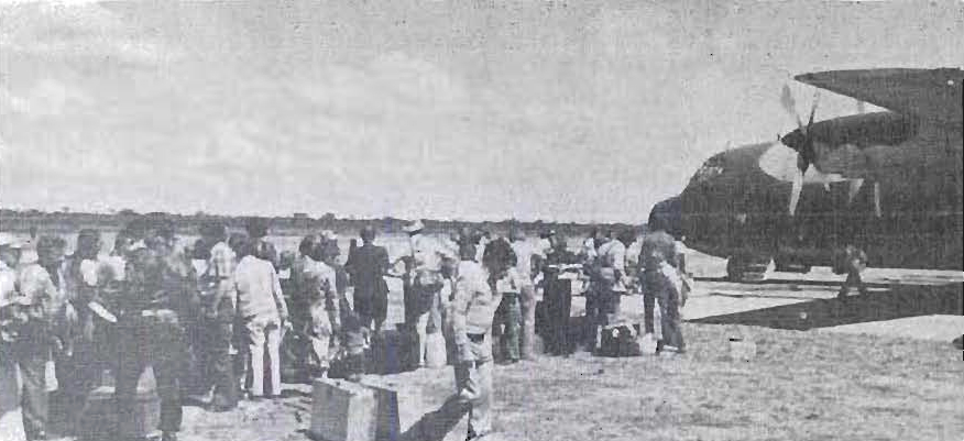 Neo-colonial administrators leaving Kolwezi in the wake of the Shaba II conflict.